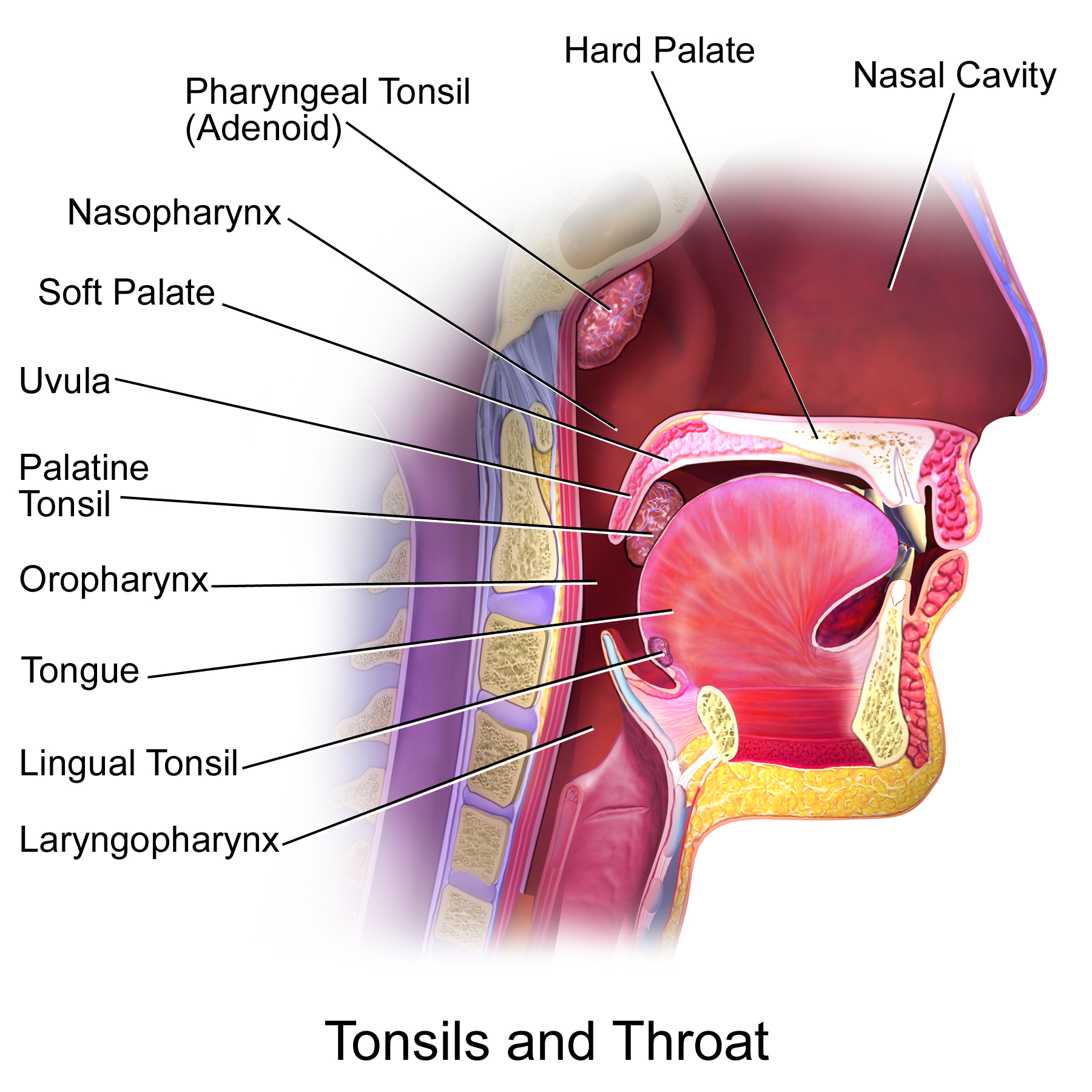 Tonsils and Throat. See a related animation of this medical topic.